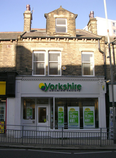 Yorkshire Building Society - Town Street